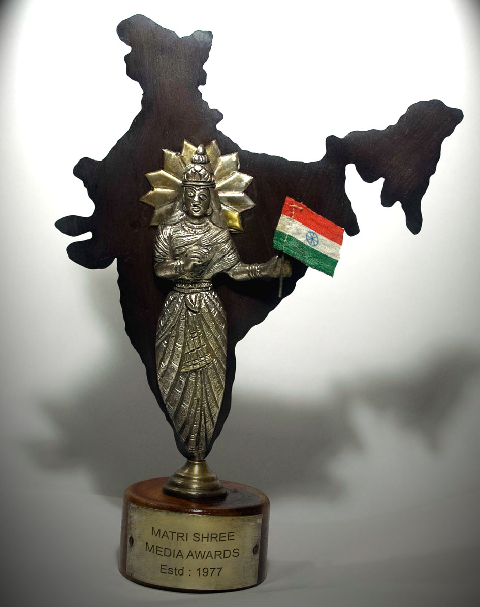 Trophy of Matri Shree Media Award, photographed by Yogesh Gurera